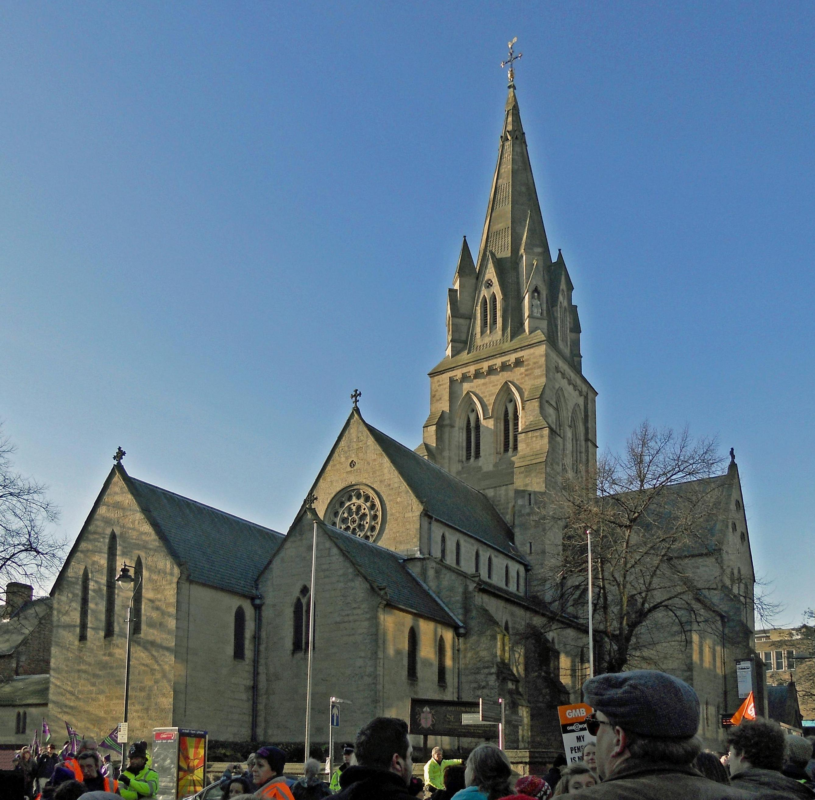 Public sector workers in Nottingham, striking over pension changes by the government in November 2011. At this moment it is seen passing Nottingham Cathedral on the way towards the rally at the Albert Hall.